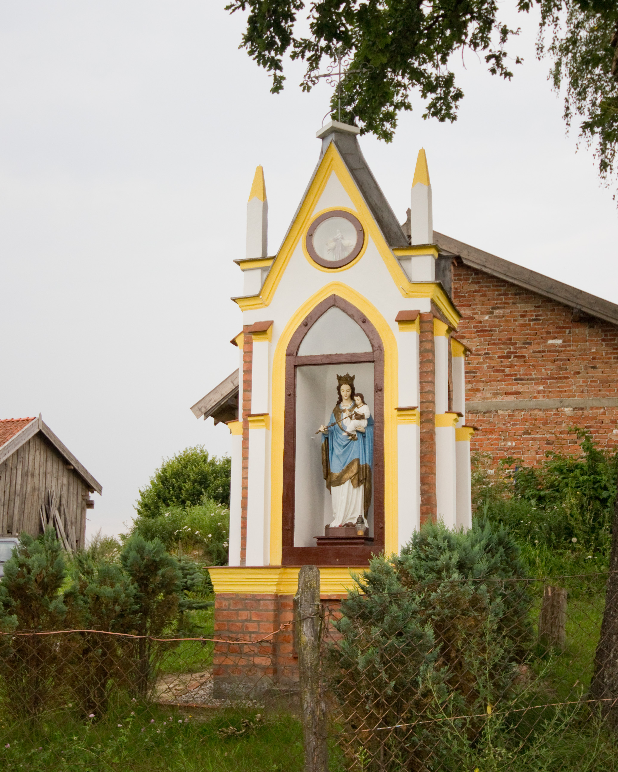 Chapel, Franknowo, gmina Jeziorany, powiat olsztyński, Warmian-Masurian Voivodeship